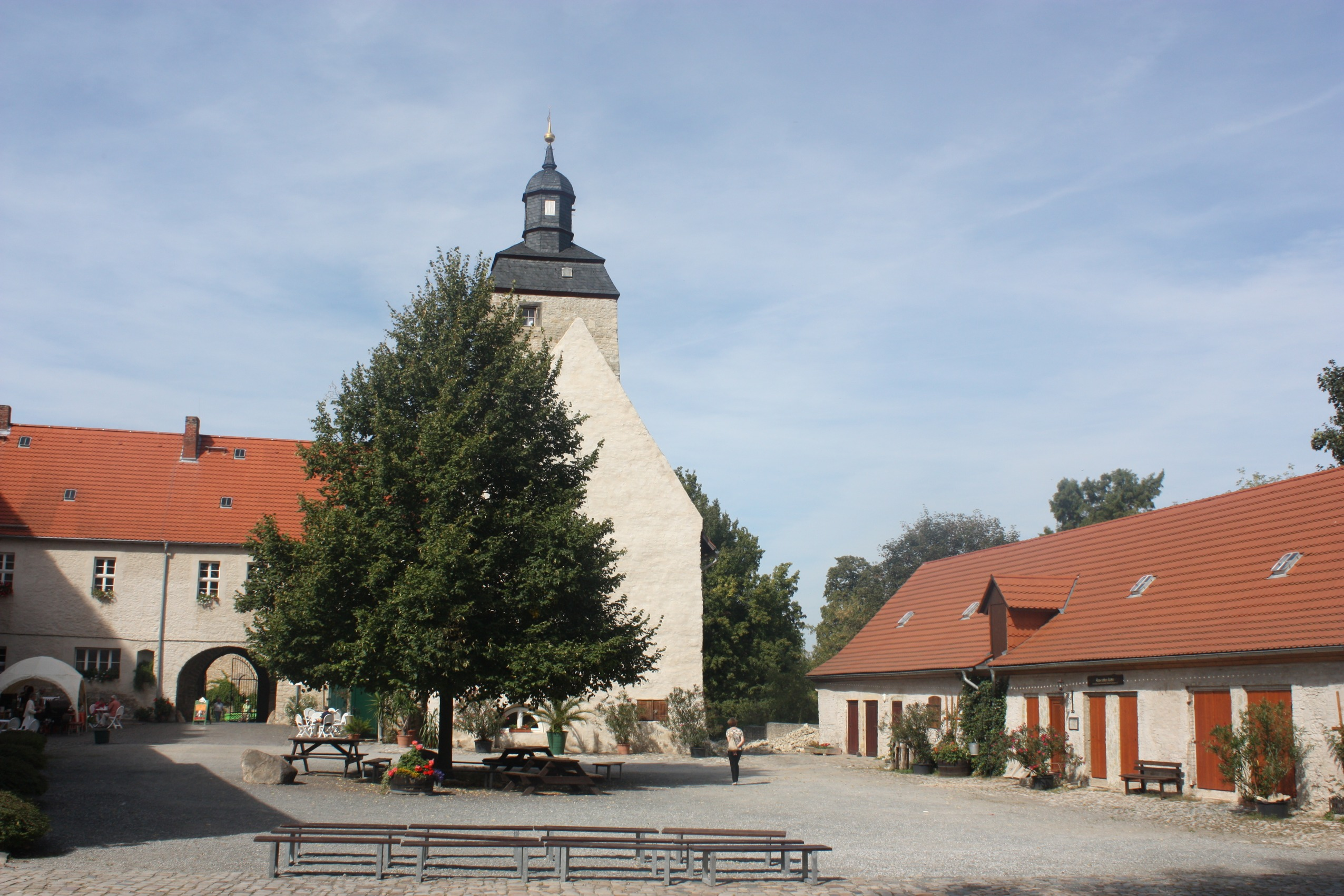 the moated castle, general view from the inner yard This is a photograph of an architectural monument. 90142